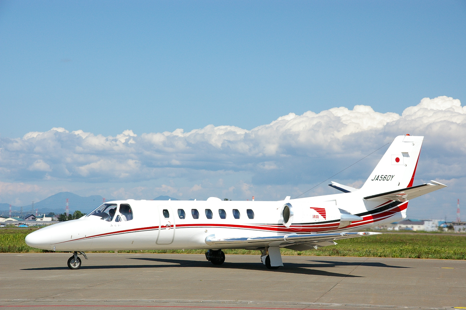 Cessna Citation V.